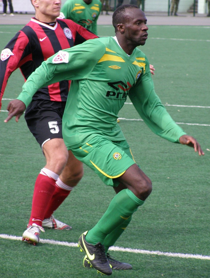 Sani Haruna Kaita in action for FC Kuban